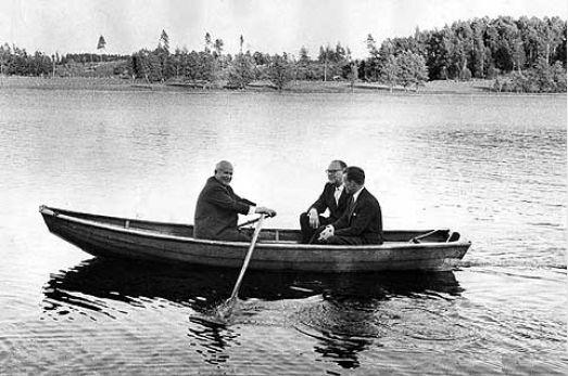 The most famous trips of all with the rowing boat at the Swedish country residence Harpsund. Nikita Khrushchev, leader of the Soviet Union together with the Swedish Prime Minister Tage Erlander and an interpreter.